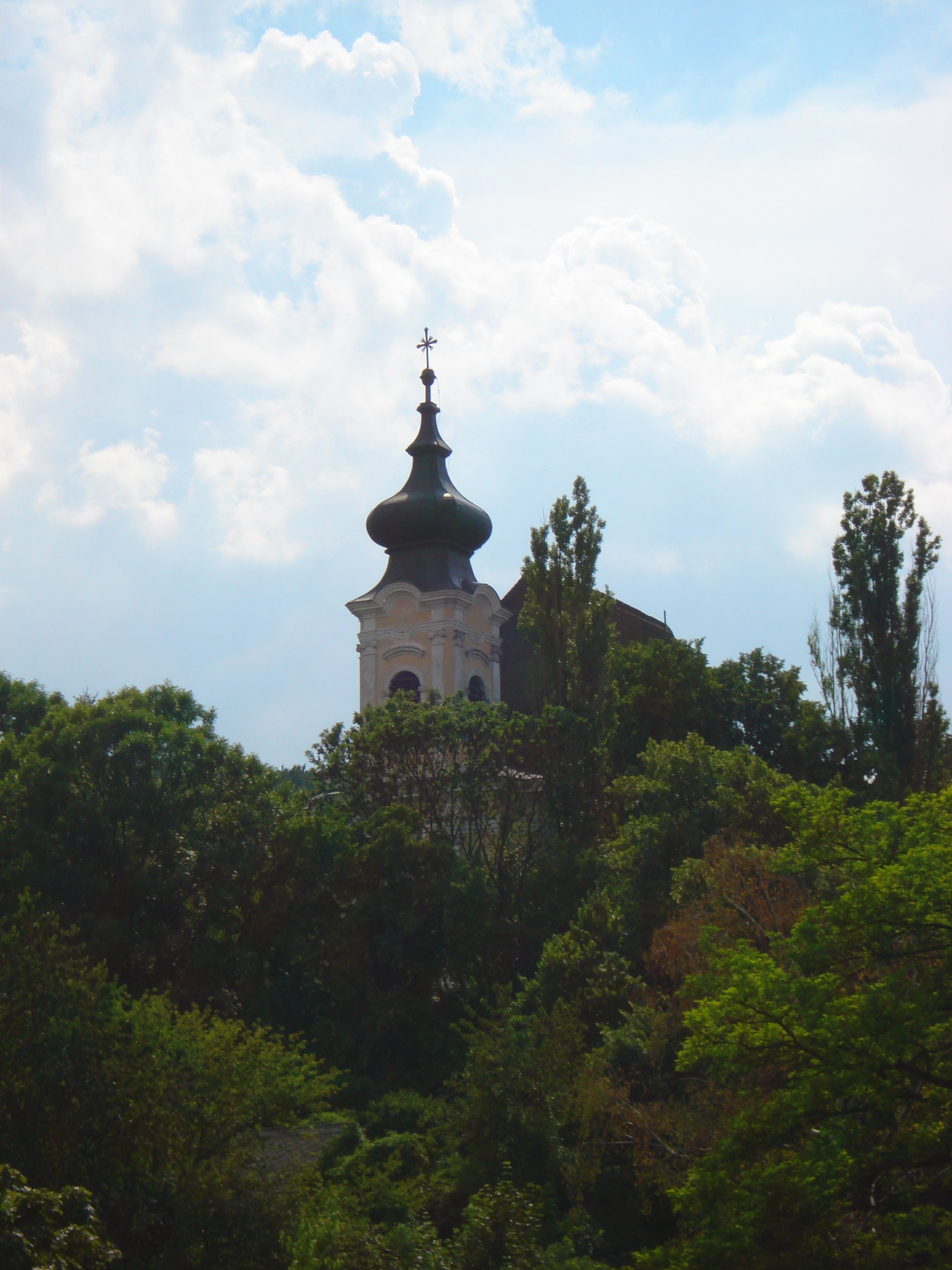 Kostol sv. Kozmu a Damiána v Dúbravke This medium shows the protected monument with the number 104-333/1 in the Slovak Republic.